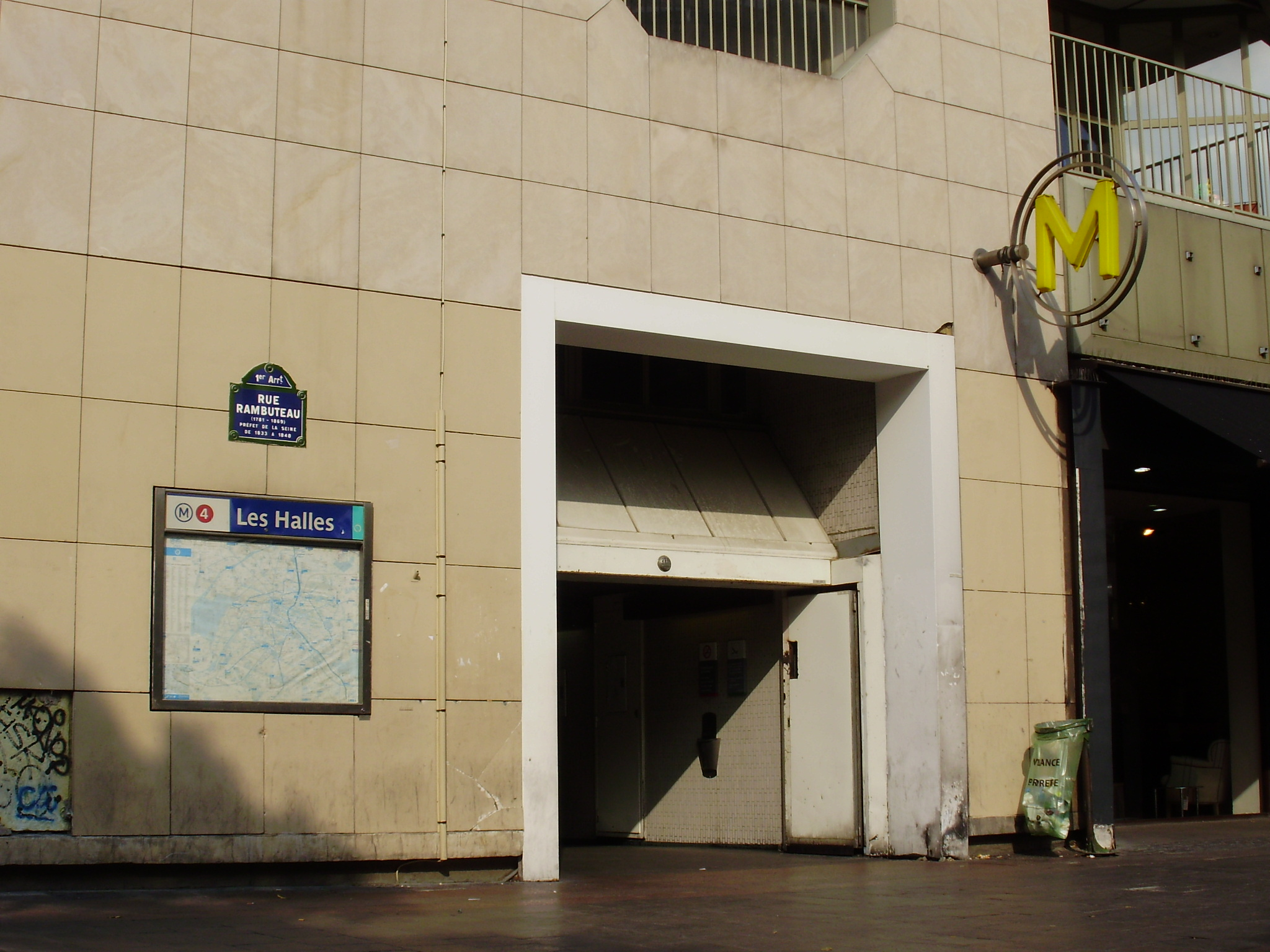 Les Halles (Subway of Paris) - Entrance